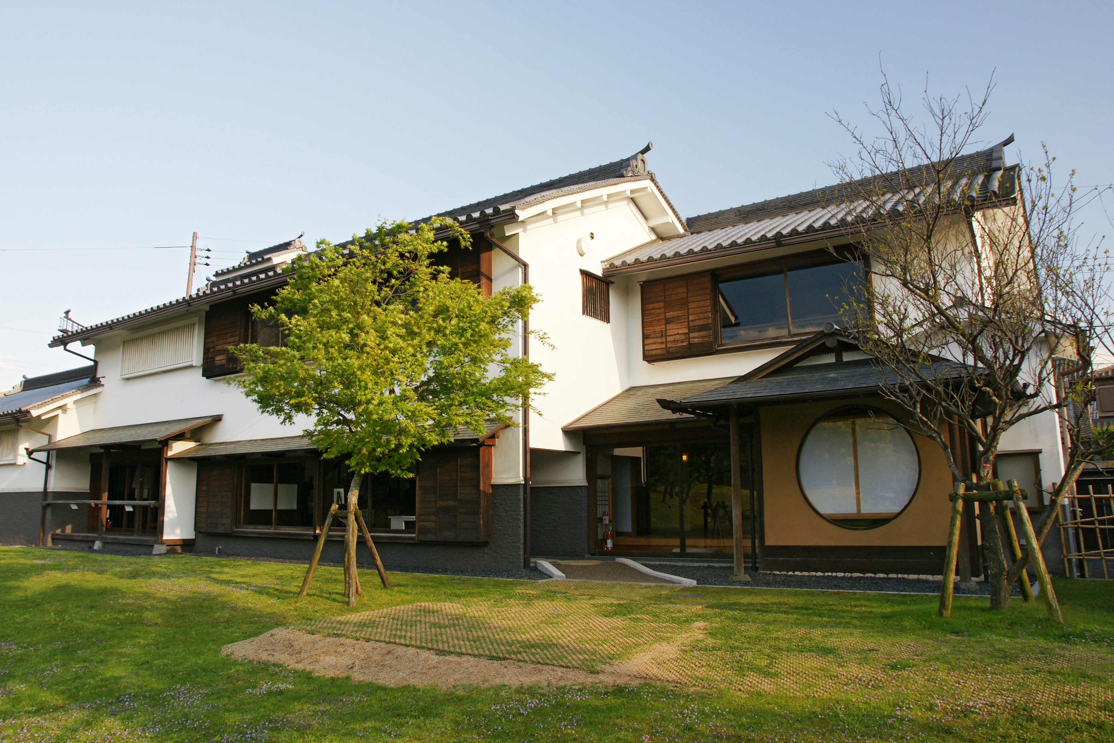 Kyu-Daijoin-teien in Nara, Nara prefecture, Japan